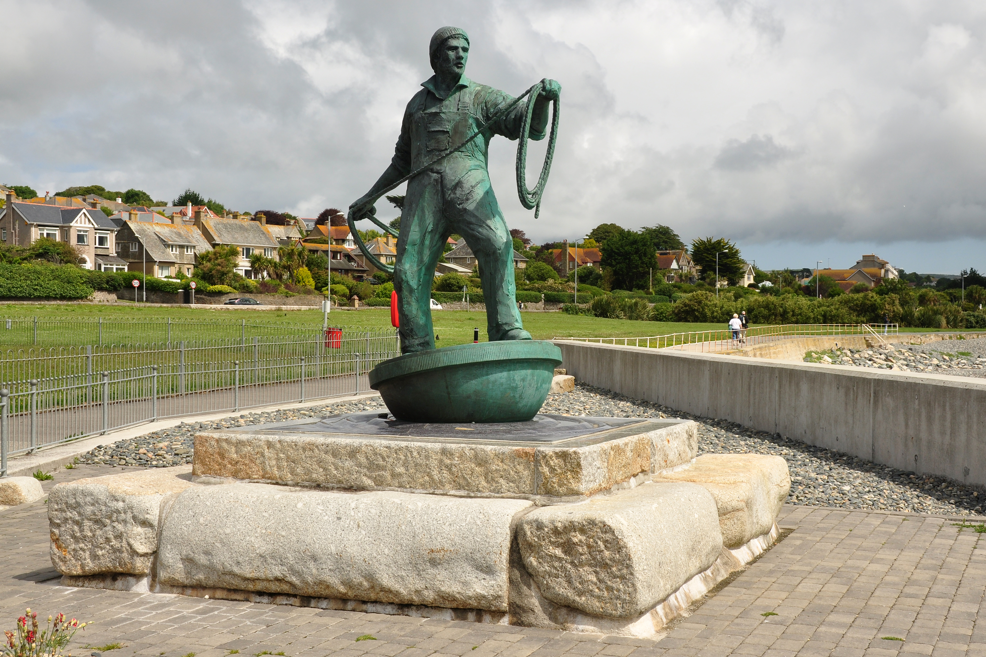 Statue of a fisherman near the harbour in Newlyn, Cornwall